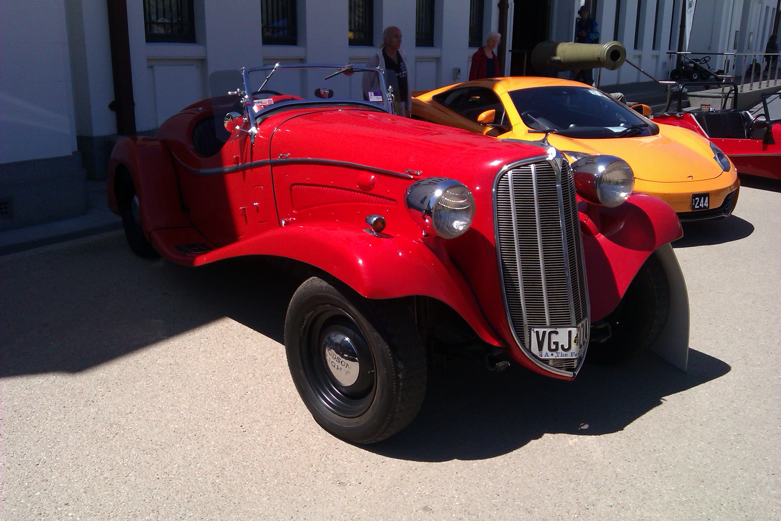 1935 Hudson Special. The car was built in 1935 for W.A. "Gus" McIntyre of Sydney to compete in a proposed 1936 trans-African race which was never held. McIntyre entered the car in the 1936 South Australian Centenary Grand Prix where it was driven by Frank Kleinig, retiring on lap 5 of the 32 lap race.